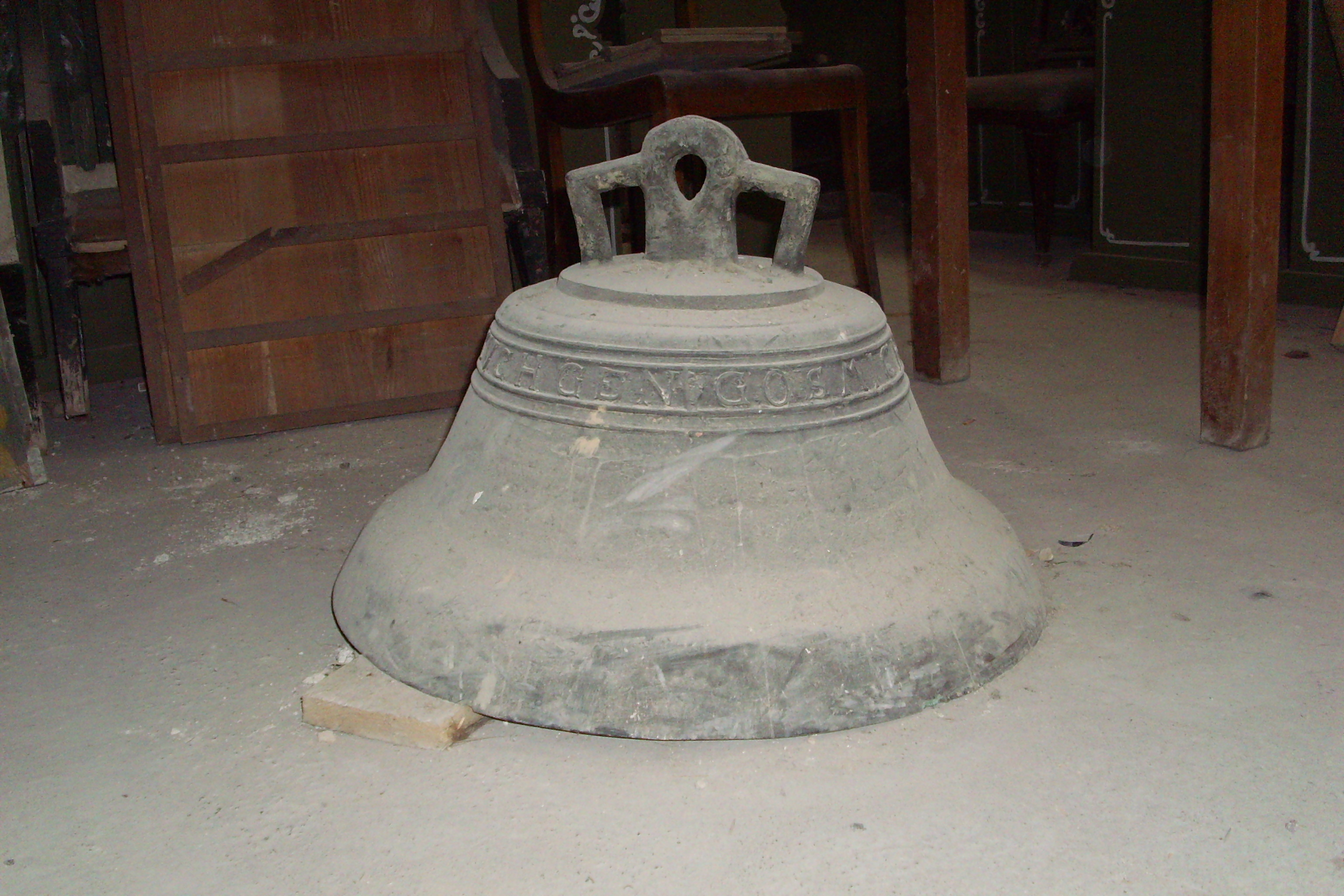 Vippachedelhausen Uhrglocke